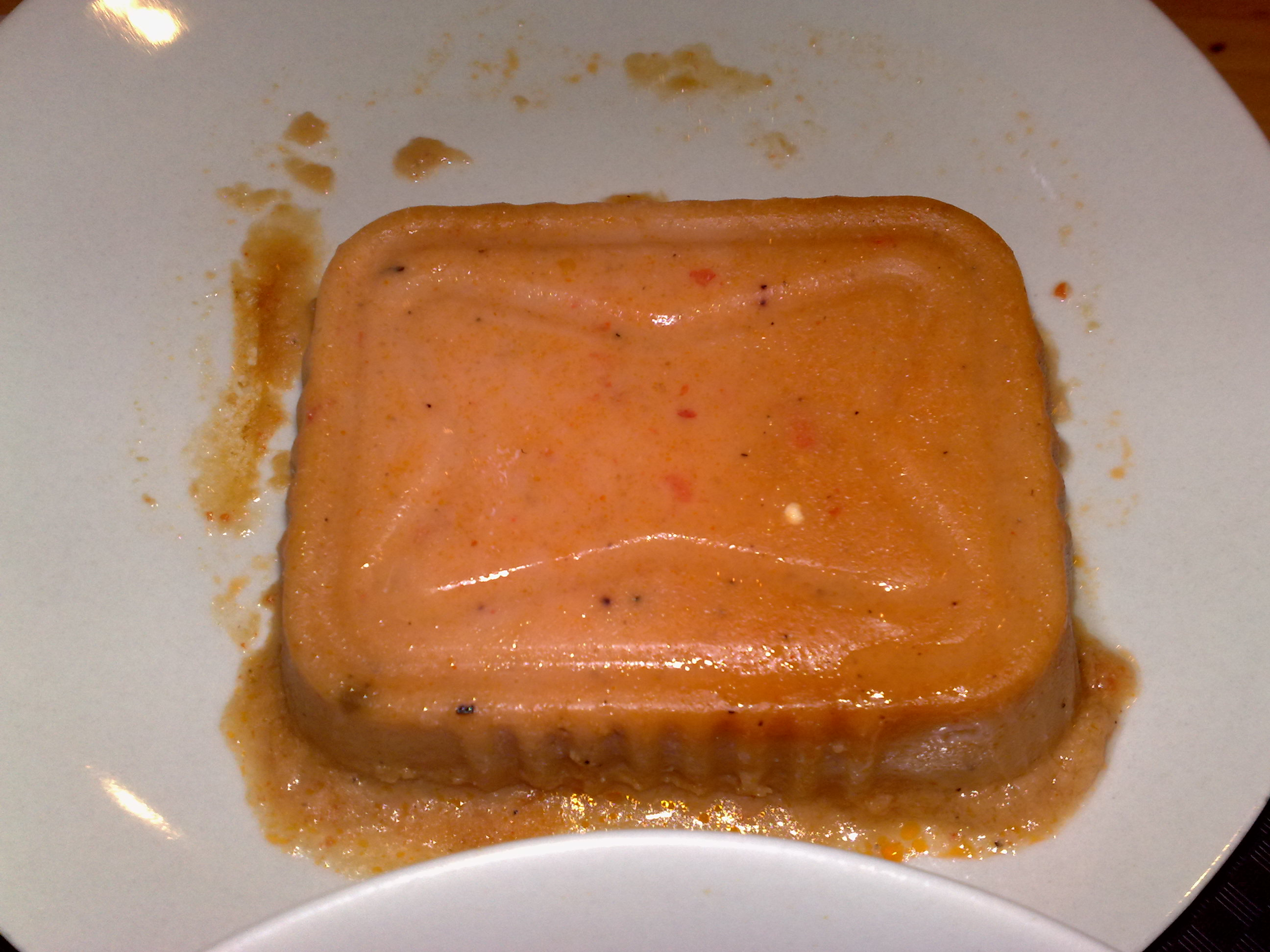 Nigerian dish Moin Moin as served in a cafe in London. Moin moin